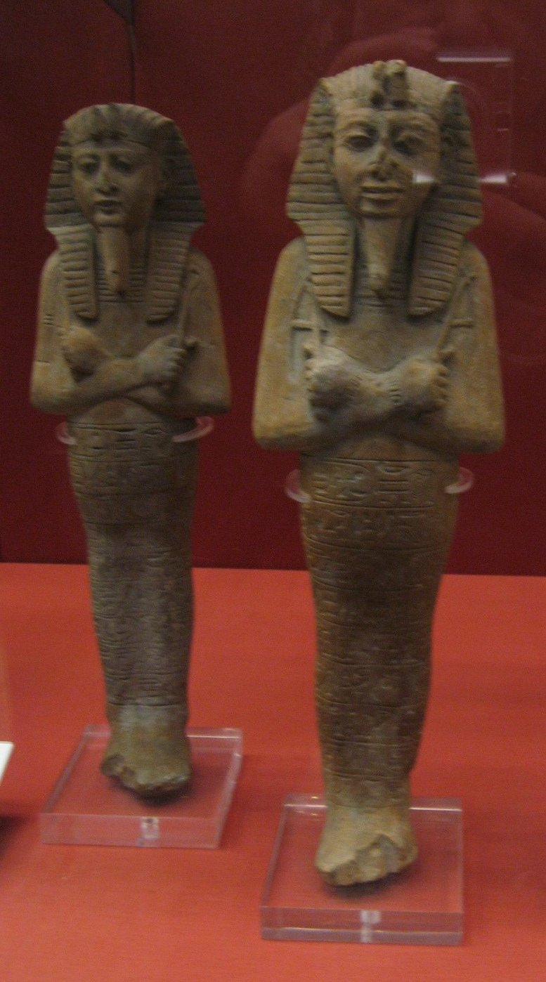 Photograph taken by me January 5 2008